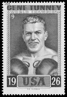 Gene Tunney, US American boxer, World Heavyweight champion